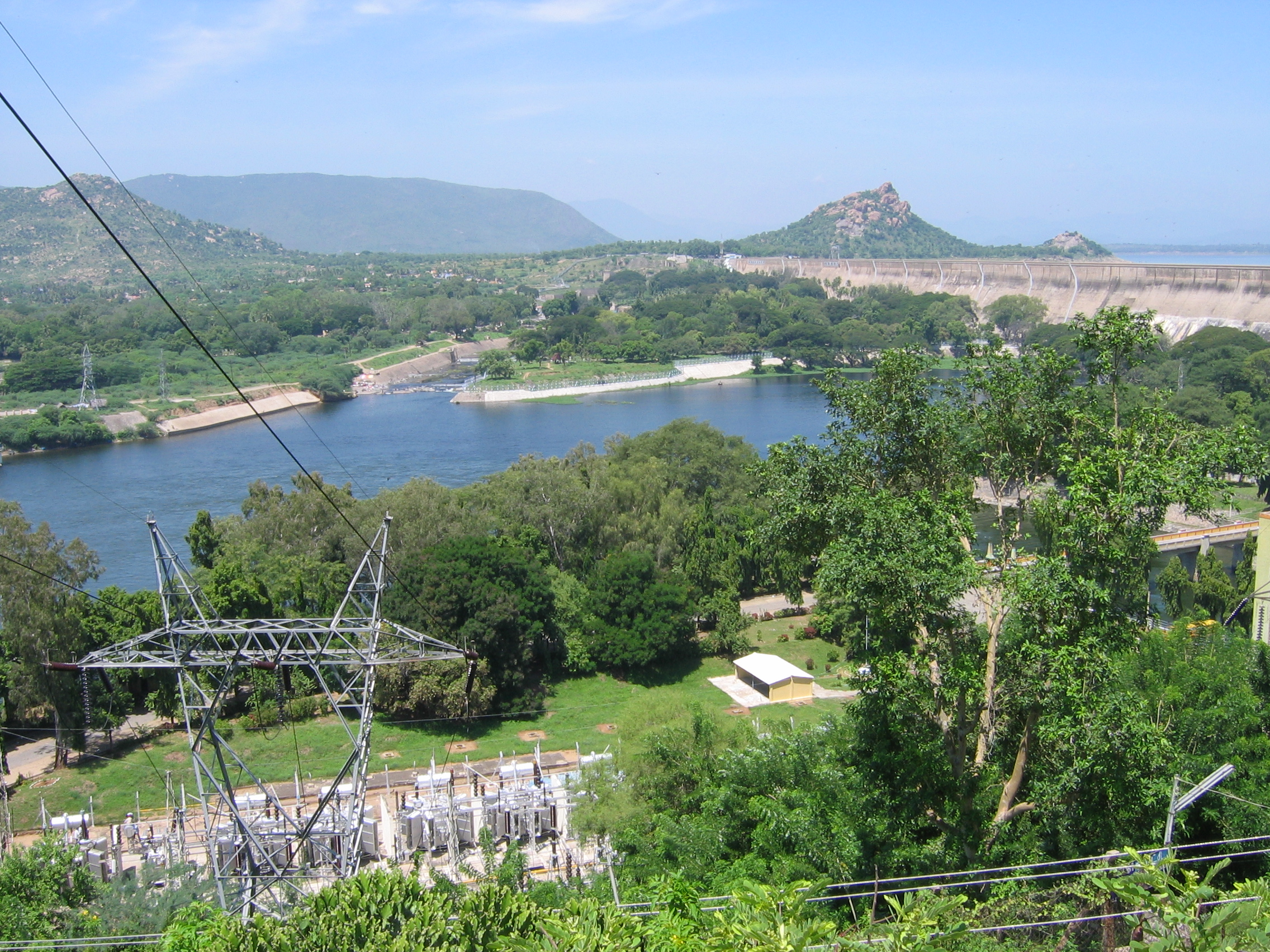 Mettur Dam. Taken by me, vvenka1